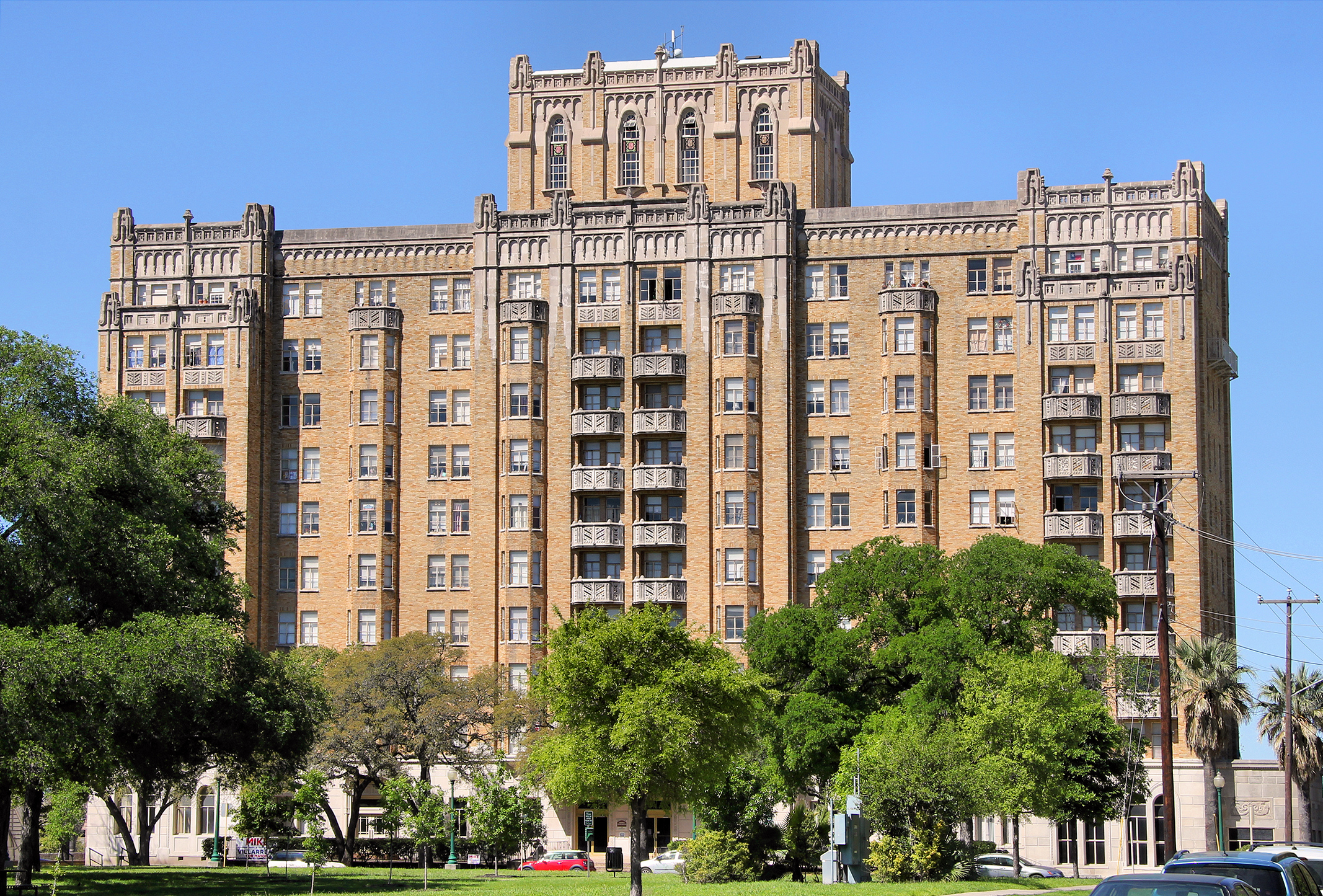 The Aurora Apartment Hotel is a historic building in San Antonio, Texas, United States. The 135 feet (41 m) high Gothic Revival style structure was built in 1929 and opened as a hotel in 1930. Today, the Aurora is a 105-unit high-rise apartment building.